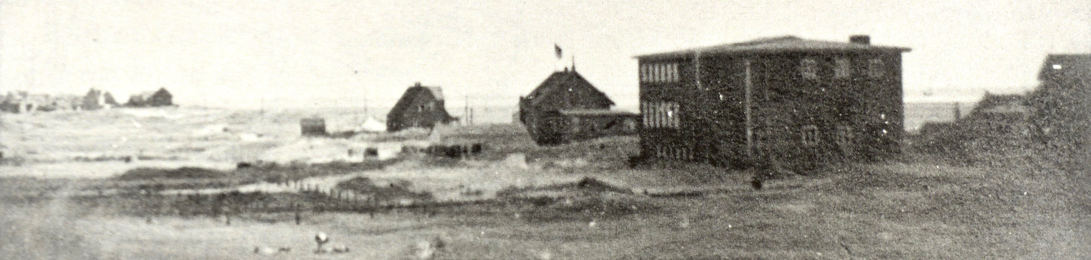 Northwesterly partial view of the Loog area on the East Frisian German island Juist, Prussia. On the right half of the picture the large building represents the theater hall of Schule am Meer (= School near the sea), a reform boarding school. This stage hall was unique as no other German school had and has a separate building for that matter.